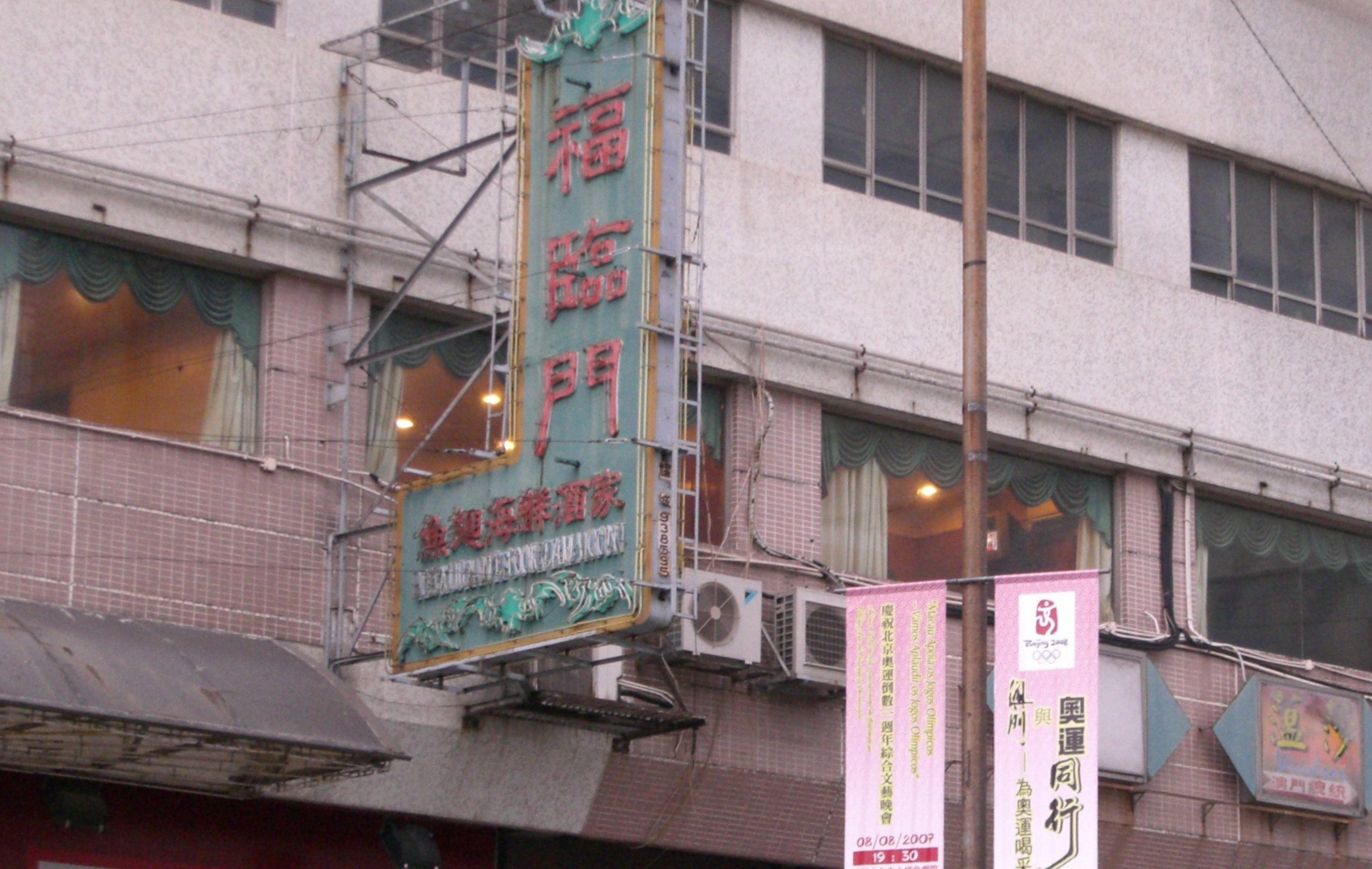 The windows of Macau Tong Vu Restaurant